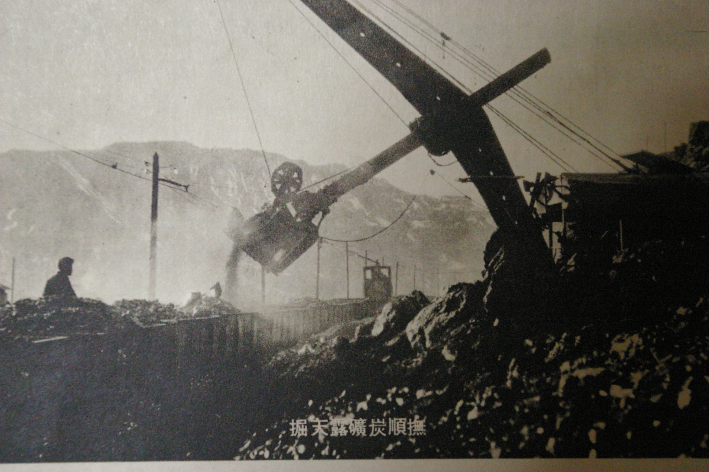 Surface coal mining in Fushun Coal Mine, about 1940.